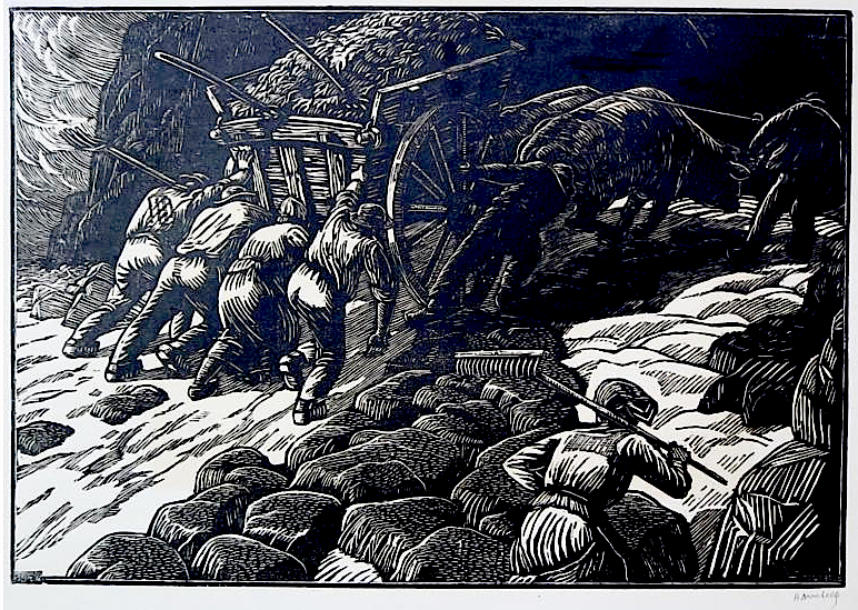 L'Effort [Bretagne, ramassage du goémon], engraving signed & dated. Image Dim.: 33,5 x 48 cm.